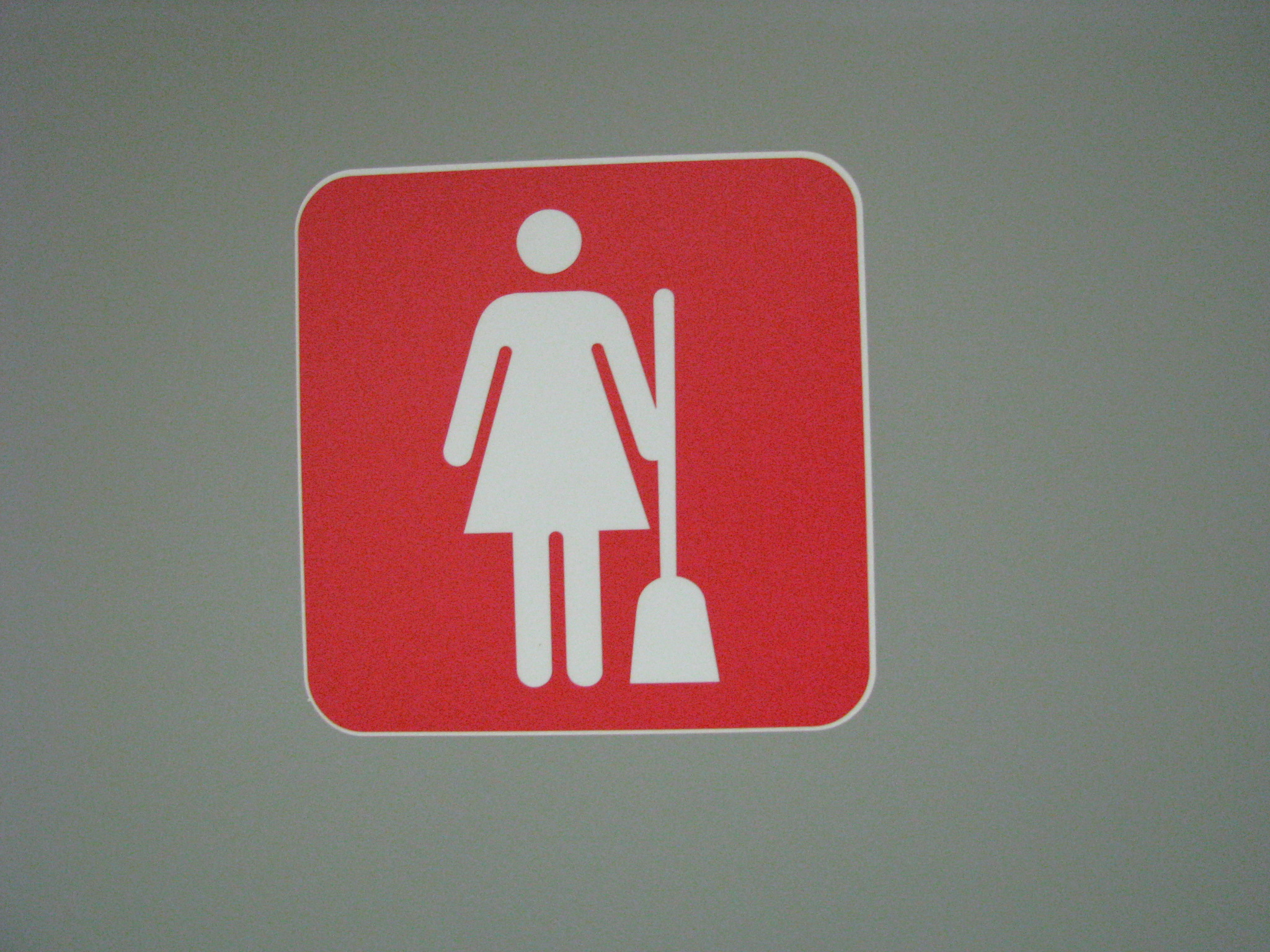 Paris Roissy Airport CDG1 terminal . Logo on closet door . Woman with broom .